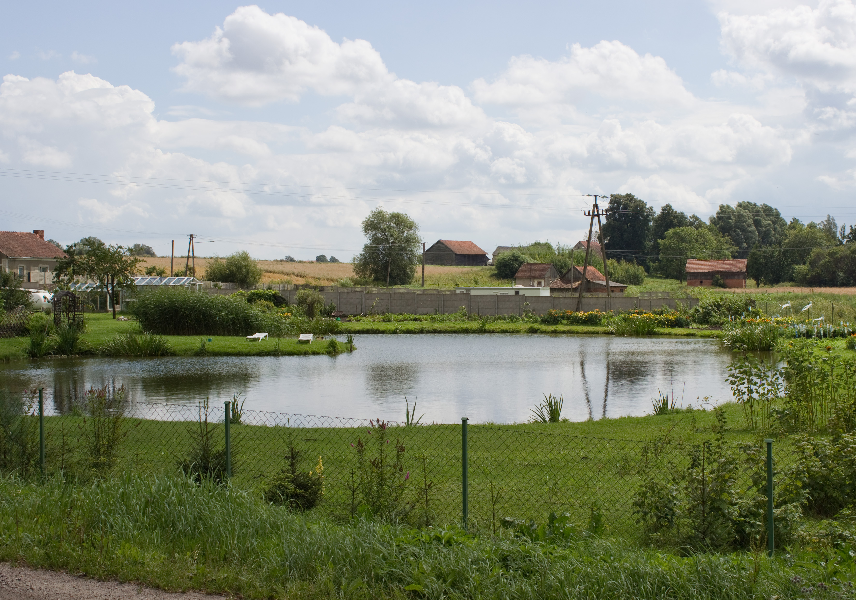 Kominki, gmina Kolno, powiat olsztyński, Warmian-Masurian Voivodeship